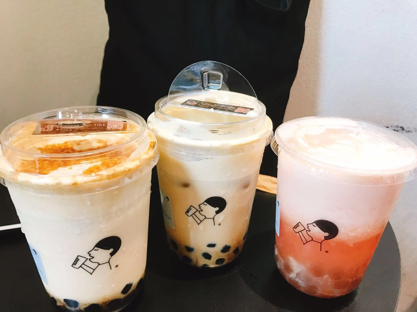 Hey Tea Products, the photo was taken in Shenzhen's Hey Tea store.